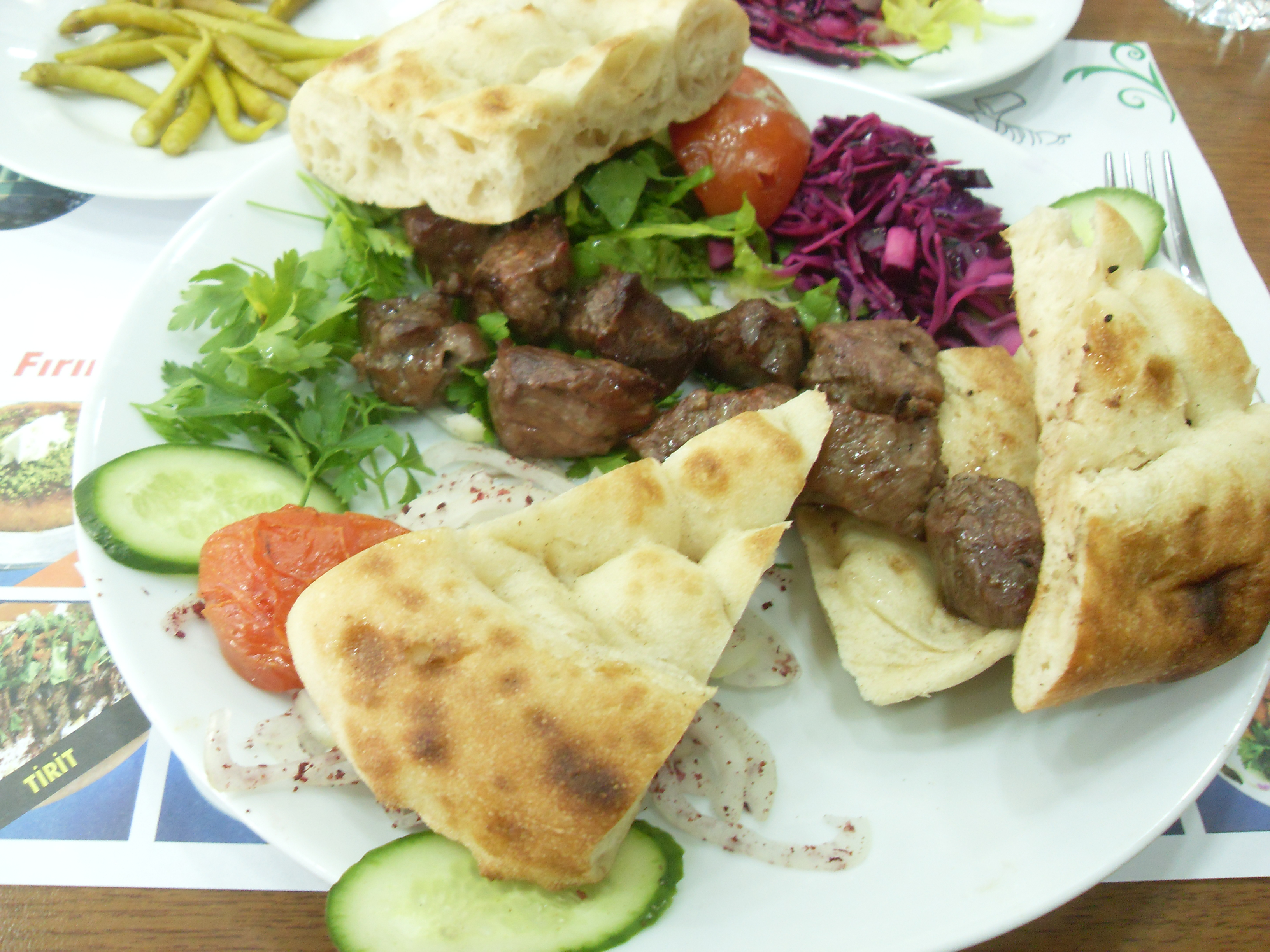 This is kuzu şişiin Konya, Turkey.